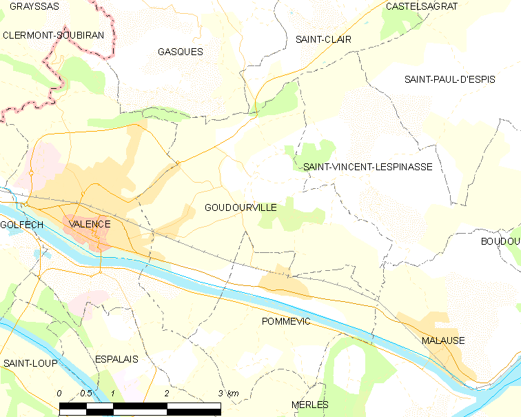 Map of French municipality Goudourville